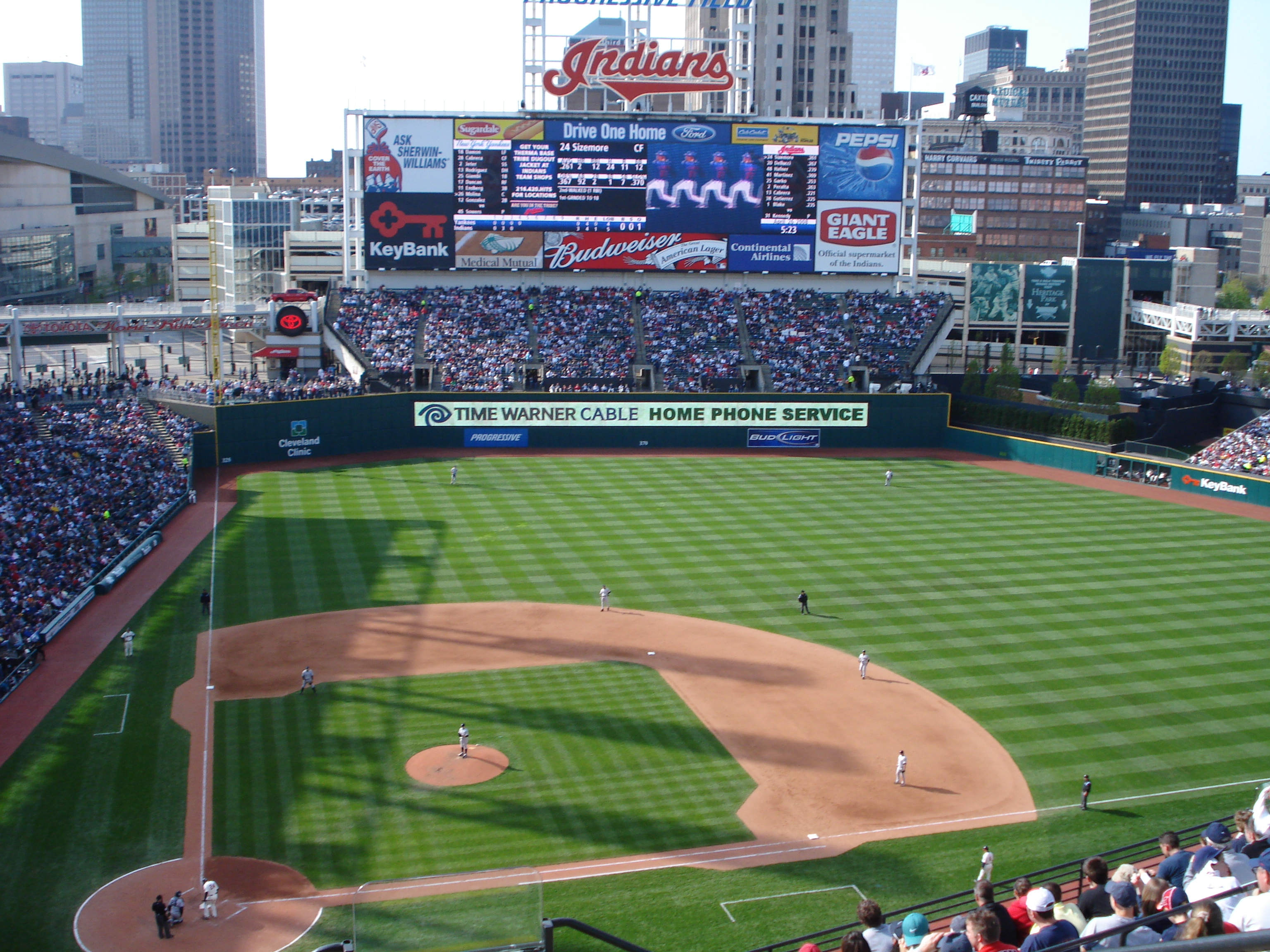 Progressive Field in Cleveland, Ohio